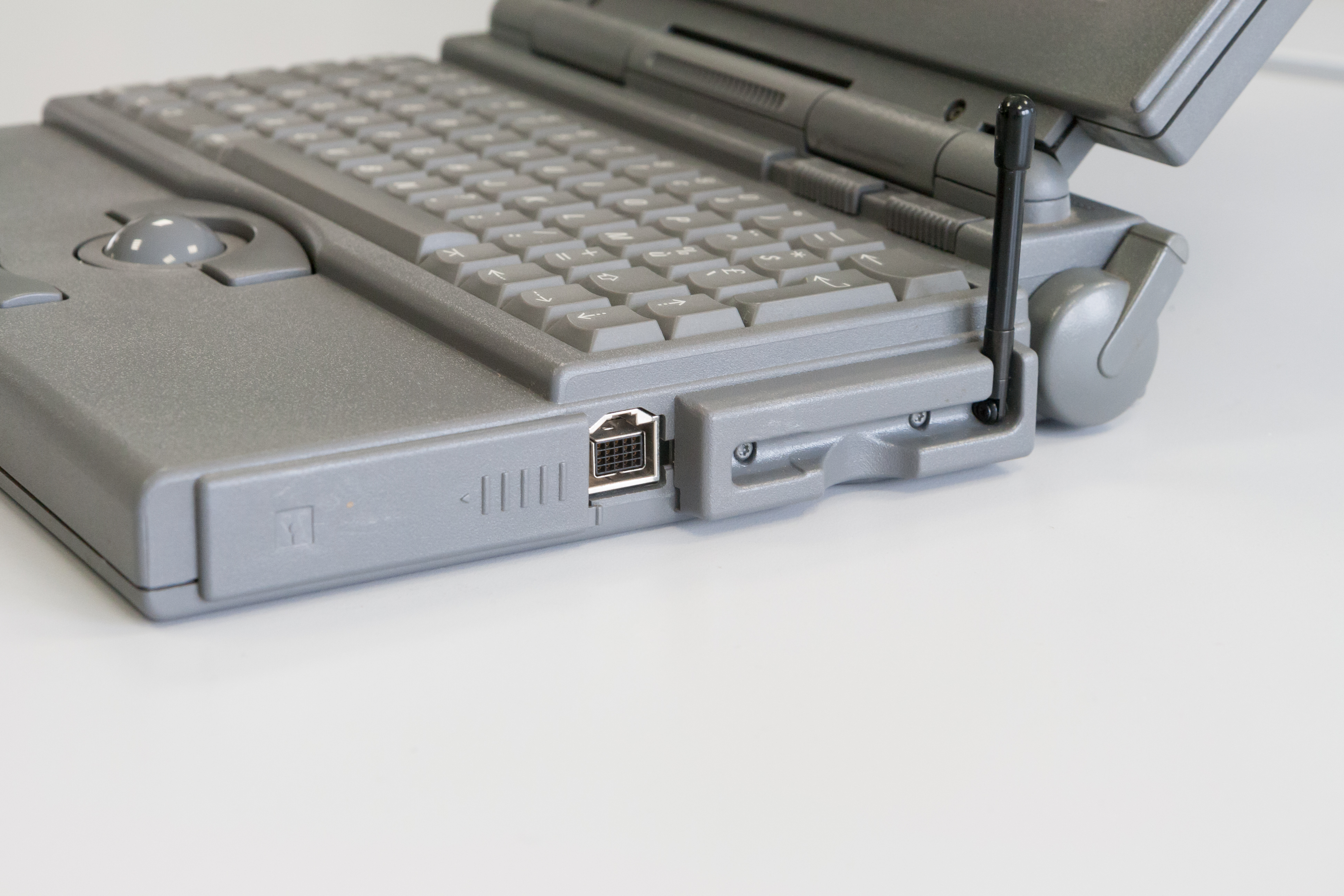 Apple PowerBop, a relatively rare version of the PowerBook sold in France. It incorporates a modem module designed to work with the CT2-based Bi-Bop mobile communications network.